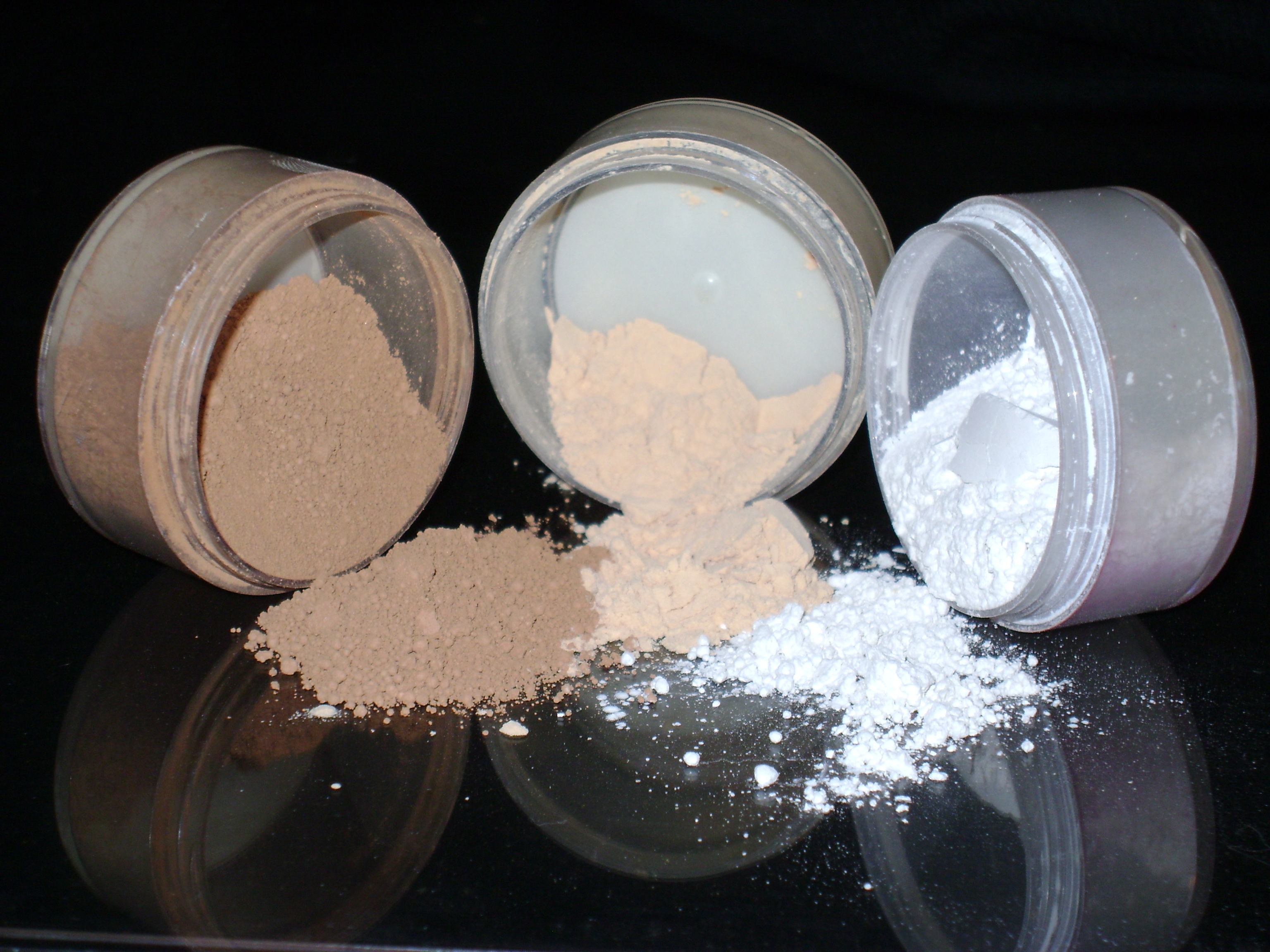 Loose powders in three shades used for makeup - Please kindly share a link for this photo the first on-line makeup encyclopedia in Greek.